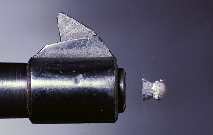 4.5mm (0.177") pellet exiting an air pistol, photographed with a high speed air-gap flash